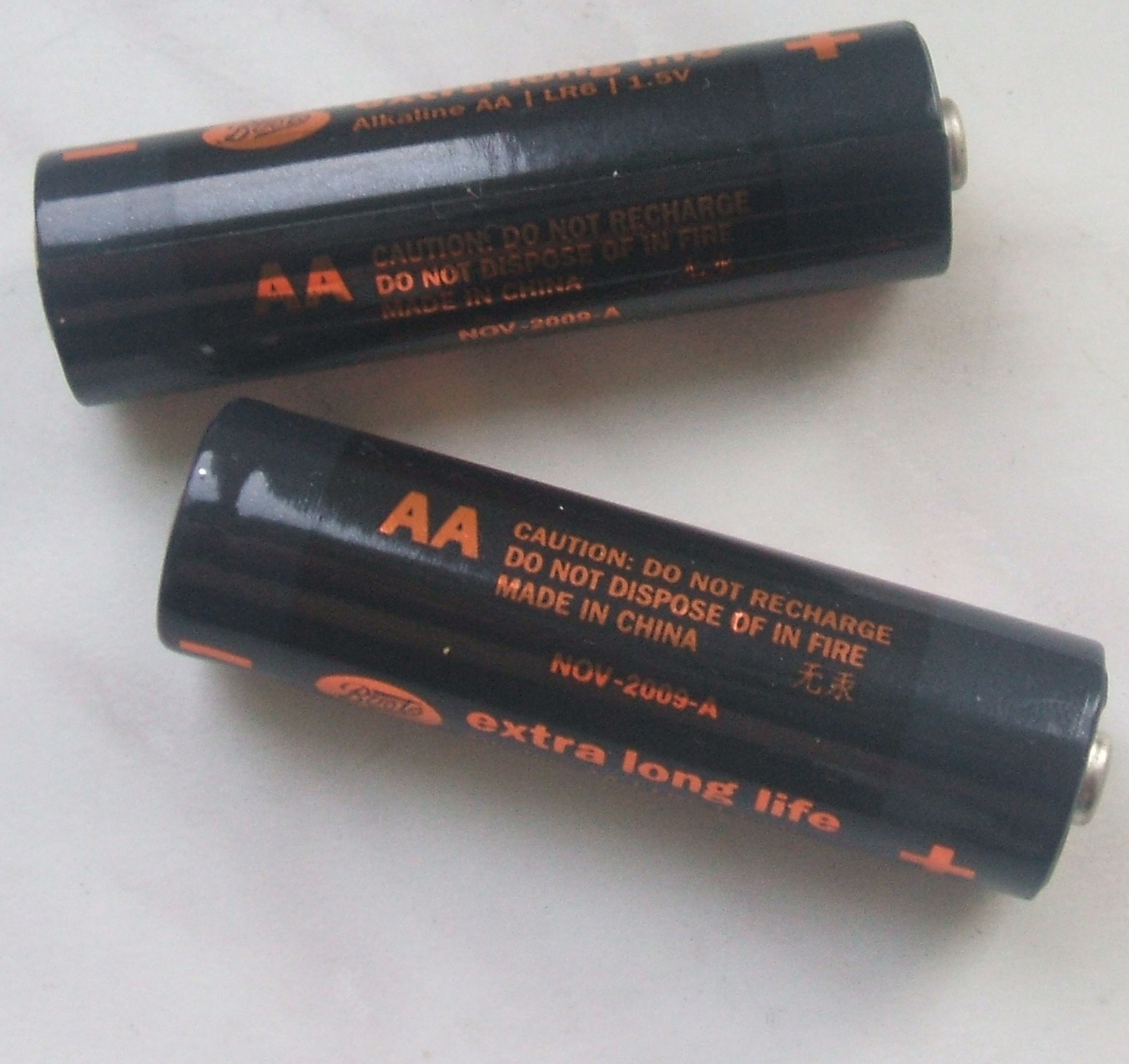 AA alkaline batteries